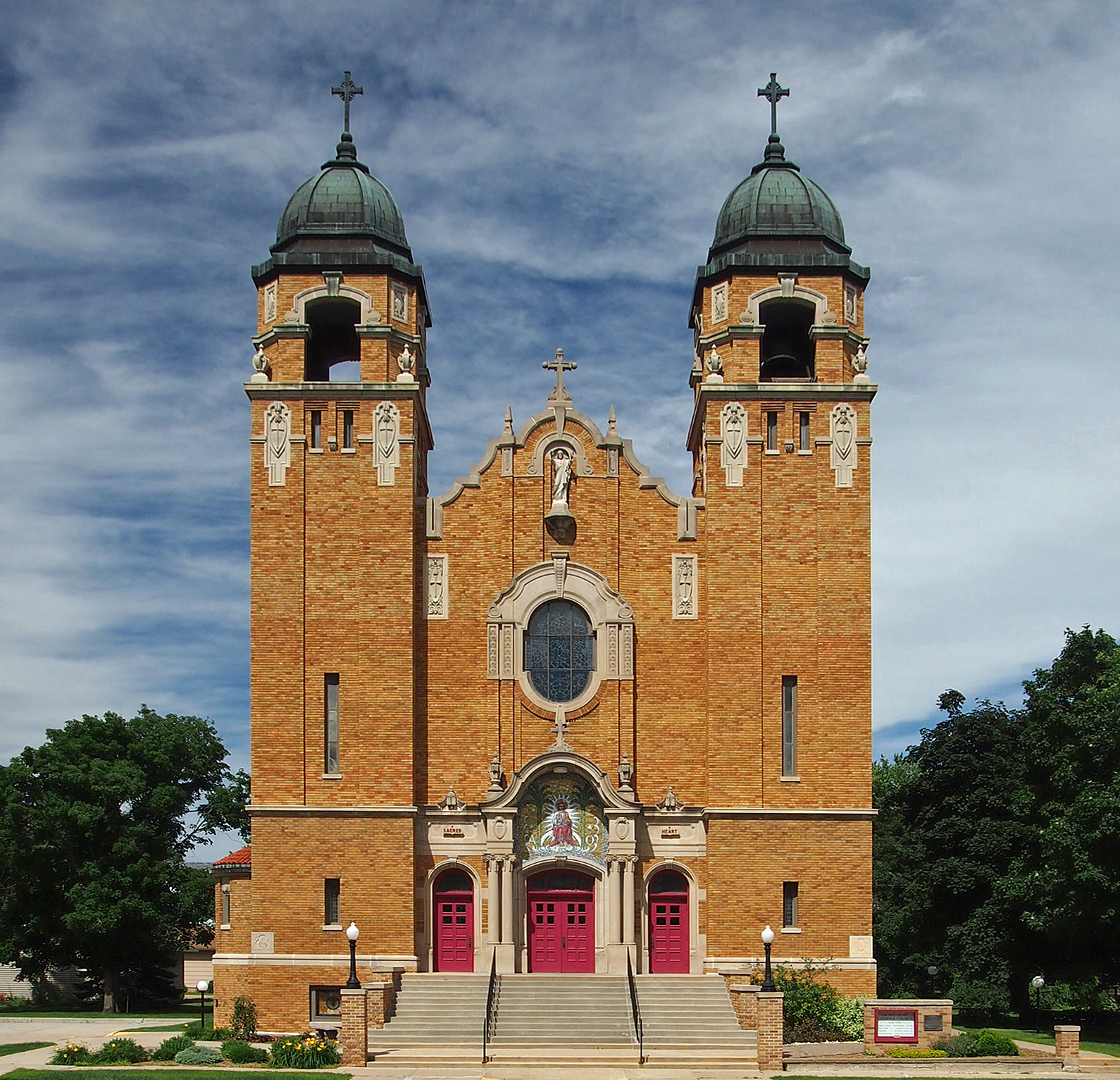 Church of the Sacred Heart, Heron Lake, Minnesota, USA. Viewed from the southwest.